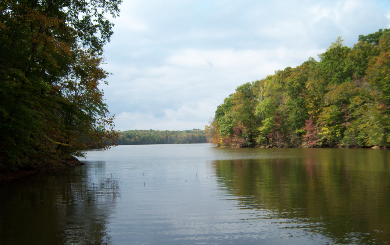 A cove in the north end of Abbotts Creek, part of High Rock Lake near Lexington, North Carolina